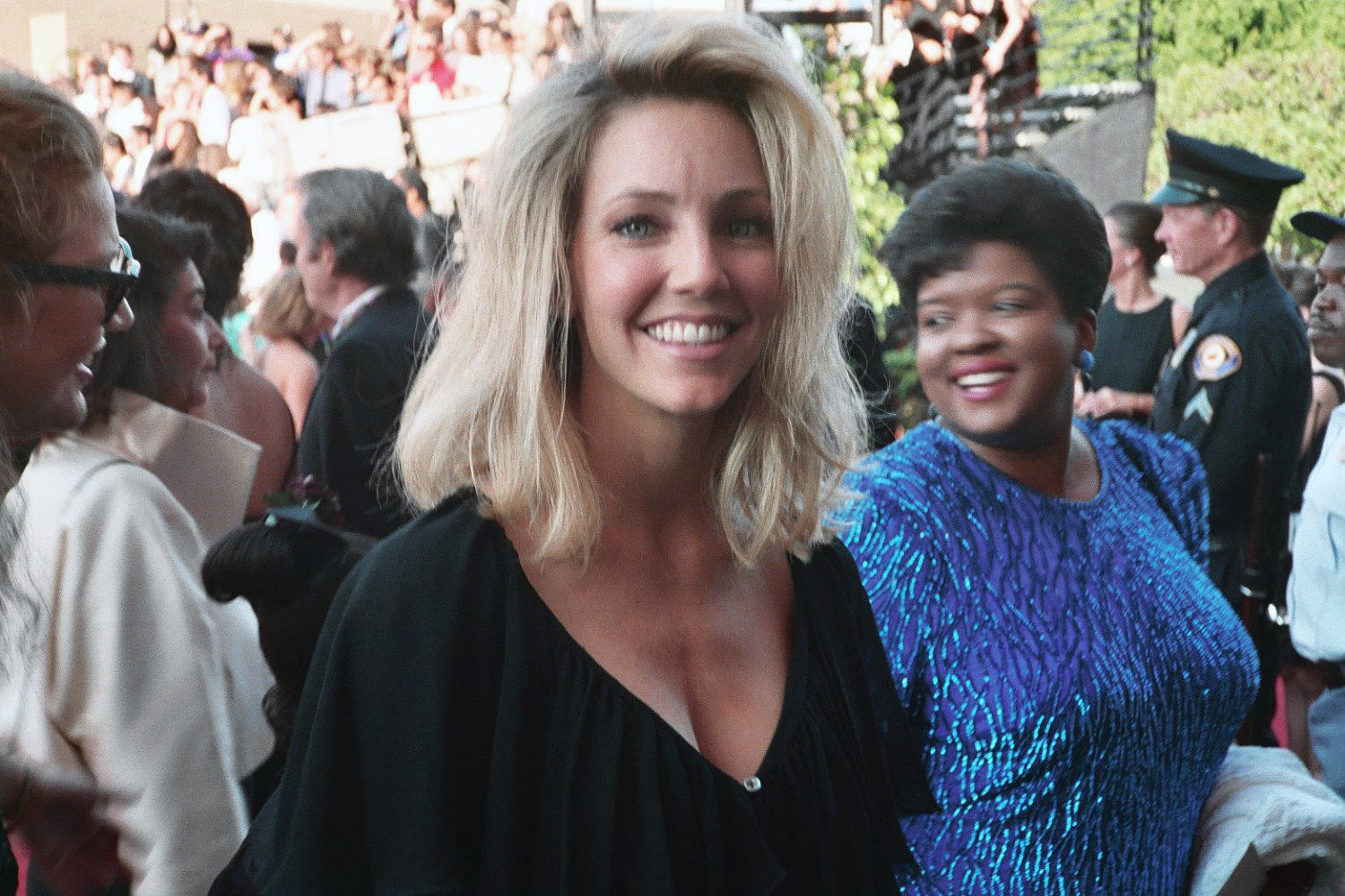 1993 Emmy Awards NOTE: Permission granted to copy, publish, broadcast or post any of my photos, but please credit "photo by Alan Light" if you can. Thanks. Scanned from the original 35MM film negative.